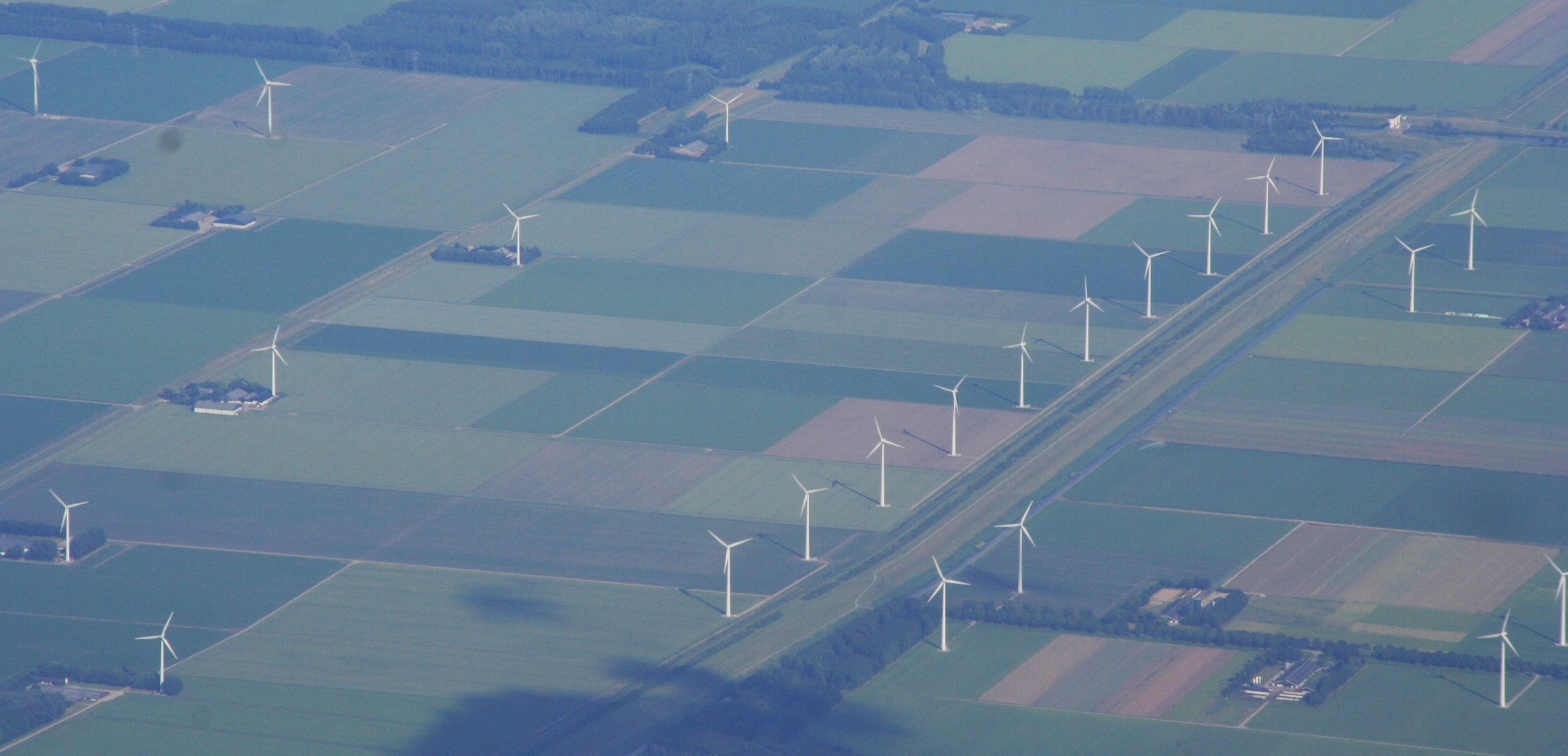 Farms and windfarm in Zeewolde, Flevoland seen from above